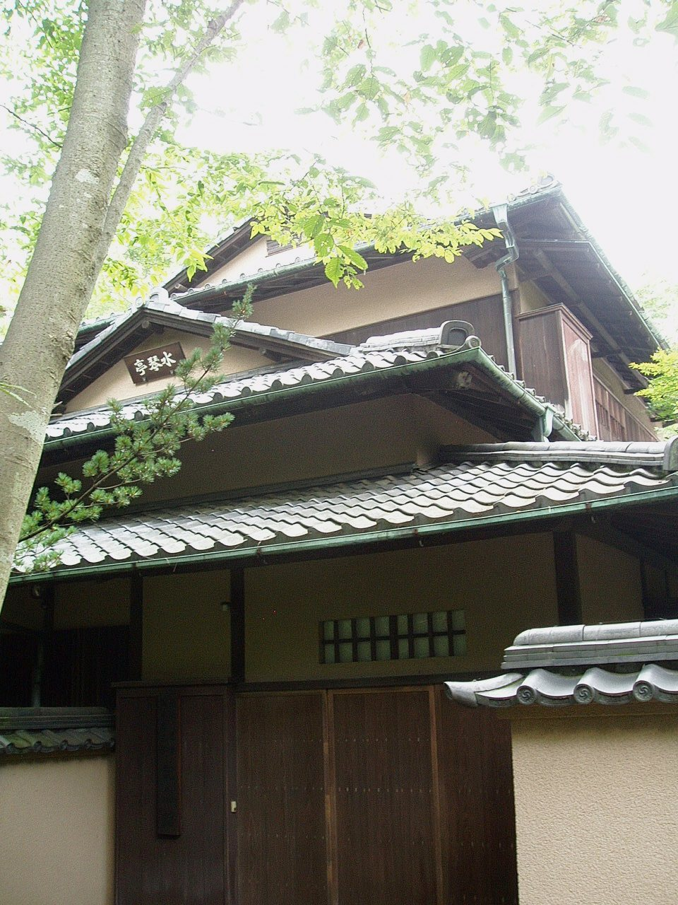 The Suikintei house at Nakayama Campus, the University of Creation; Art, Music & Social Work (Souzou Gakuen University), located in Takasaki, Gunma Prefecture, Japan.